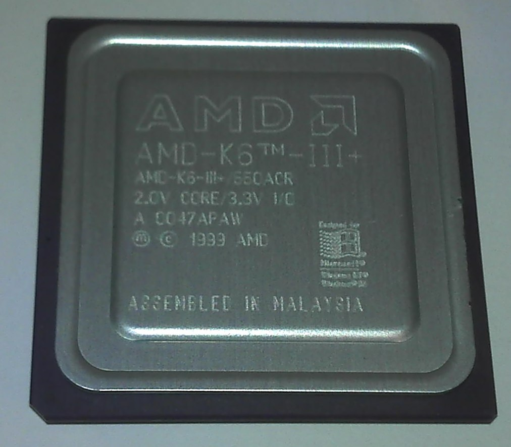 x86 CPU AMD-K6-III+/550ACR, 2.0V CORE/3.3V I/O, A 0047APAW, 1999 AMD